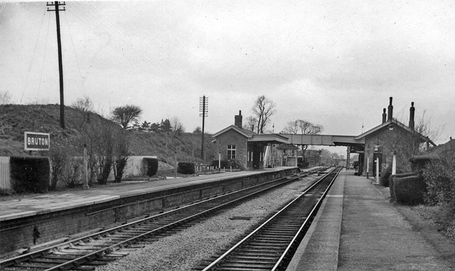 Bruton Station. View SW, towards Castle Cary and Taunton/Weymouth; ex-Great Western main line, London, Reading, Swindon etc. - Castle Cary - Weymouth/Taunton, Exeter, Plymouth and Penzance. The station is on a short level stretch in the middle of the 5½-mile 1-in-98 Brewham Bank facing Up trains, as can be seen ahead.